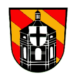 Coat of Arms of Holzkirchen